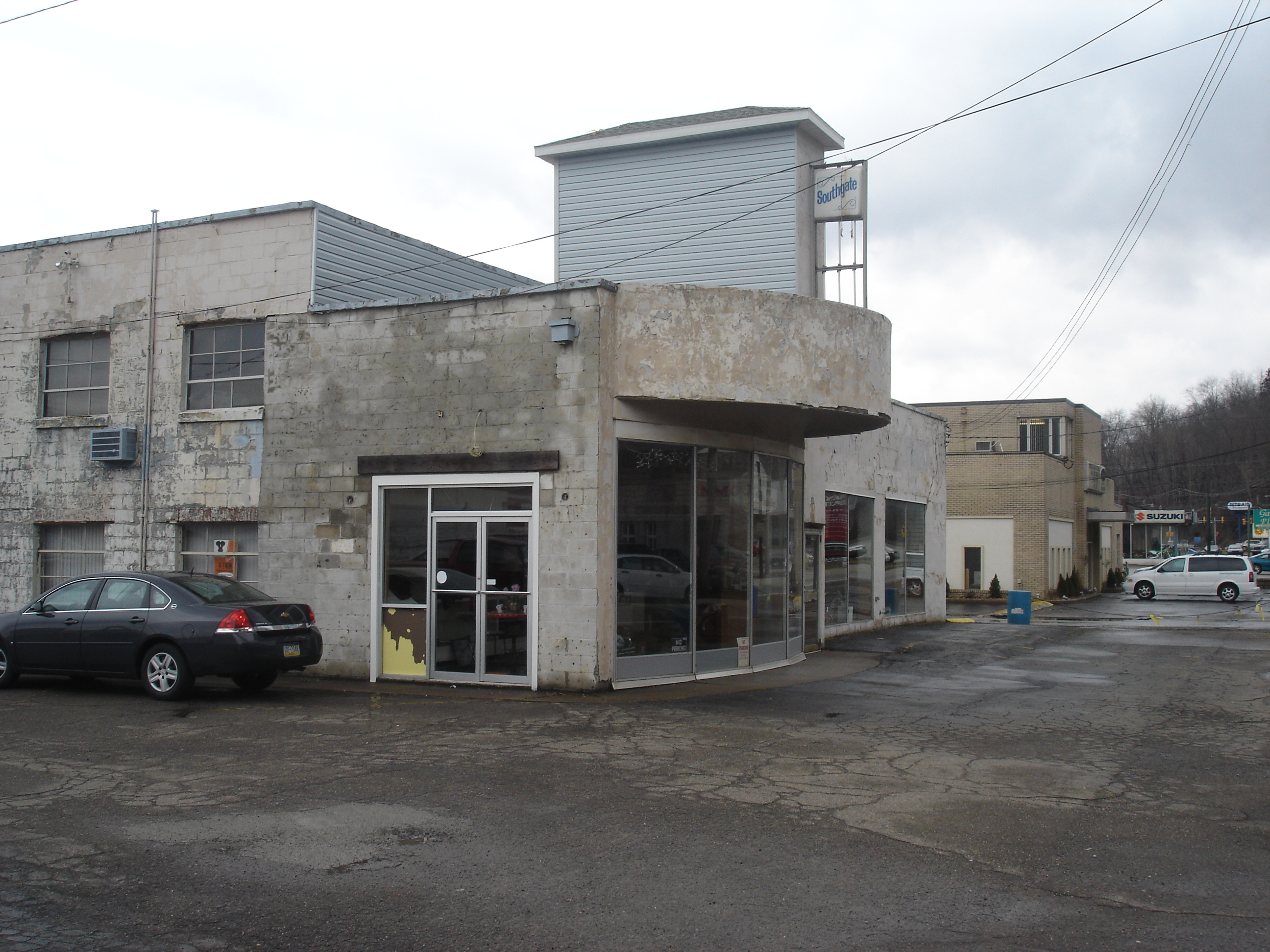 The former Yenko Chevrolet building in Cannonsburg, PA. Taken March 19th, 2008.